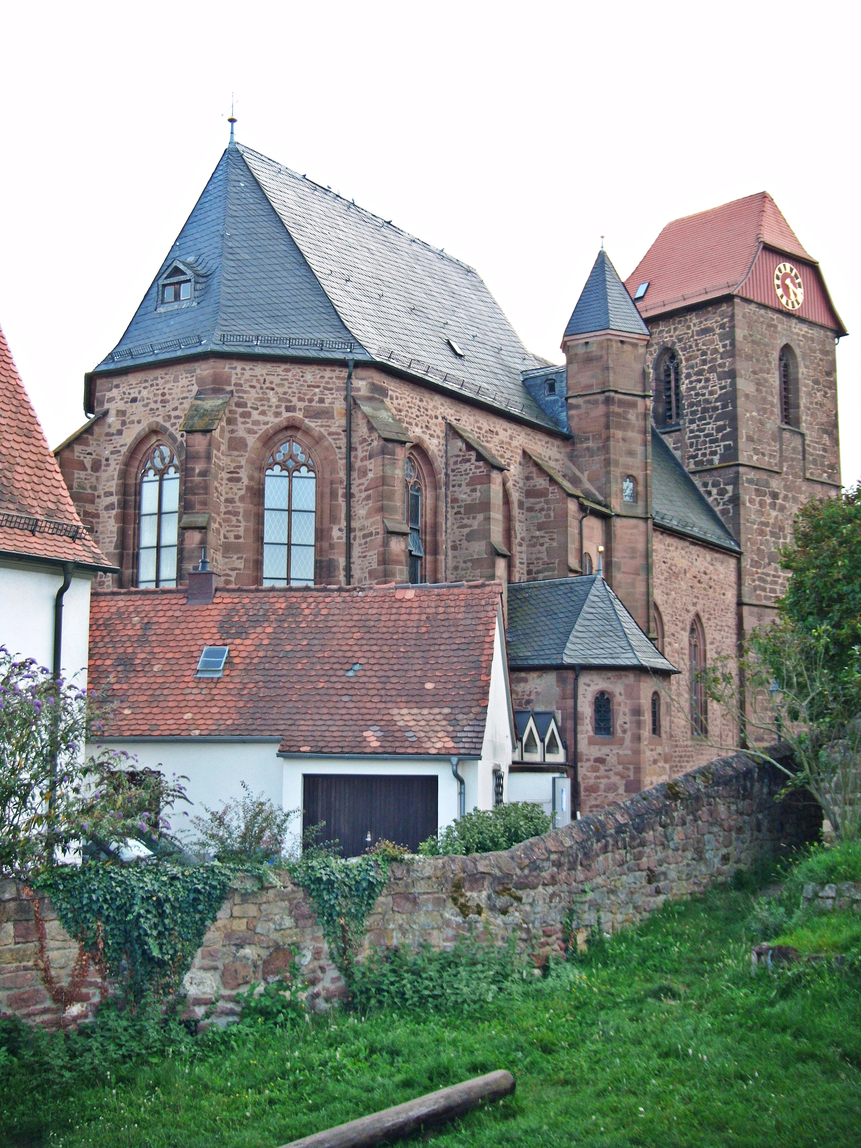 Neuleiningen, kath. Kirche St. Nikolaus, von Osten